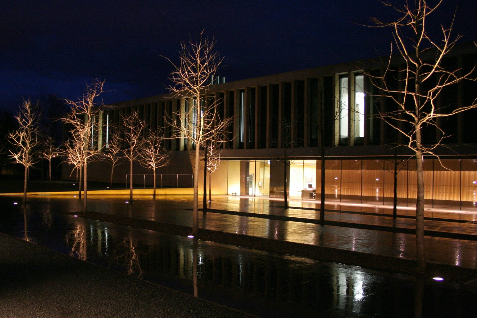 Sainsbury Laboratory Cambridge University building exterior at night.